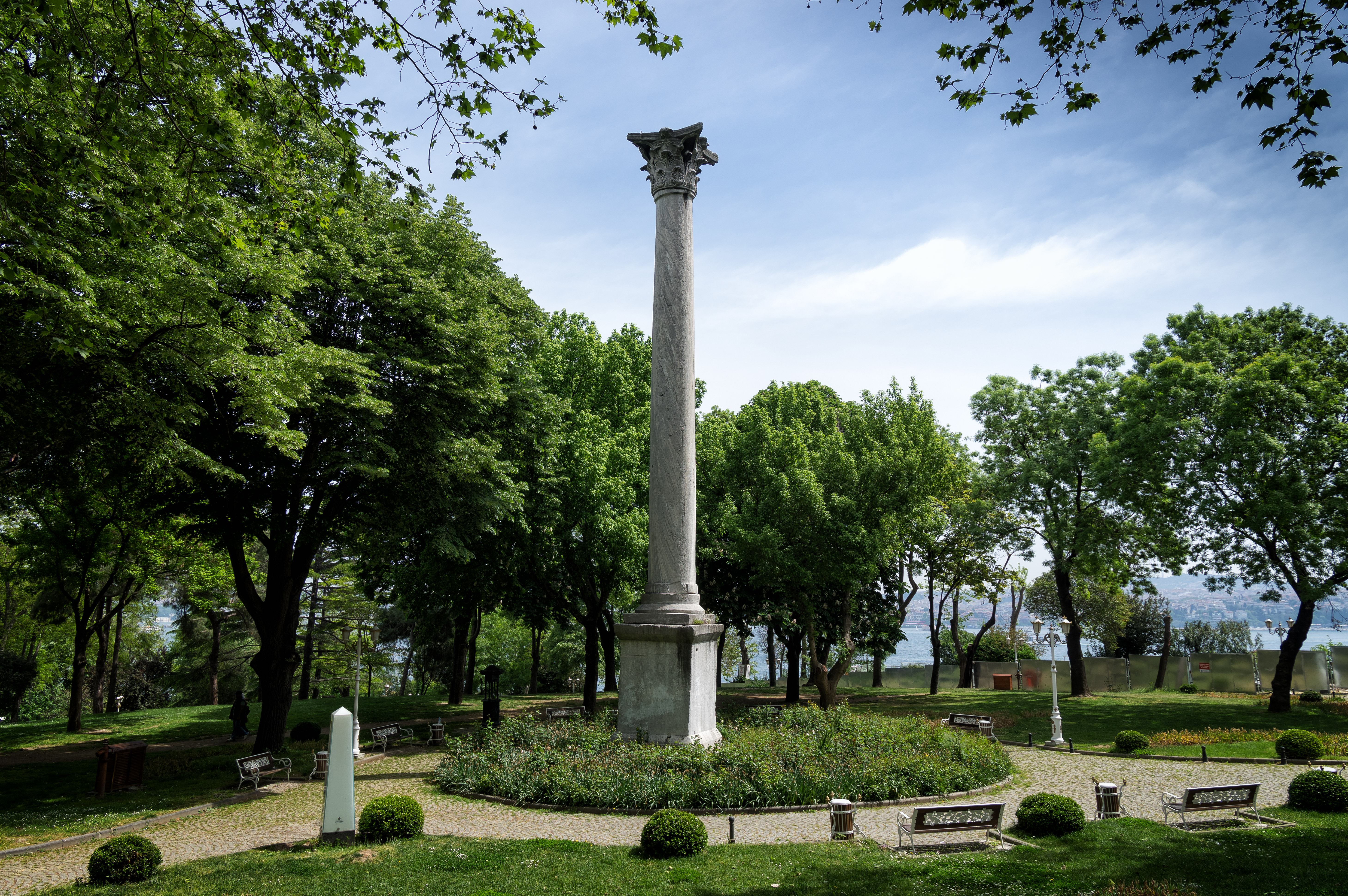 Goths' Column, Gulhane Park, Istanbul.